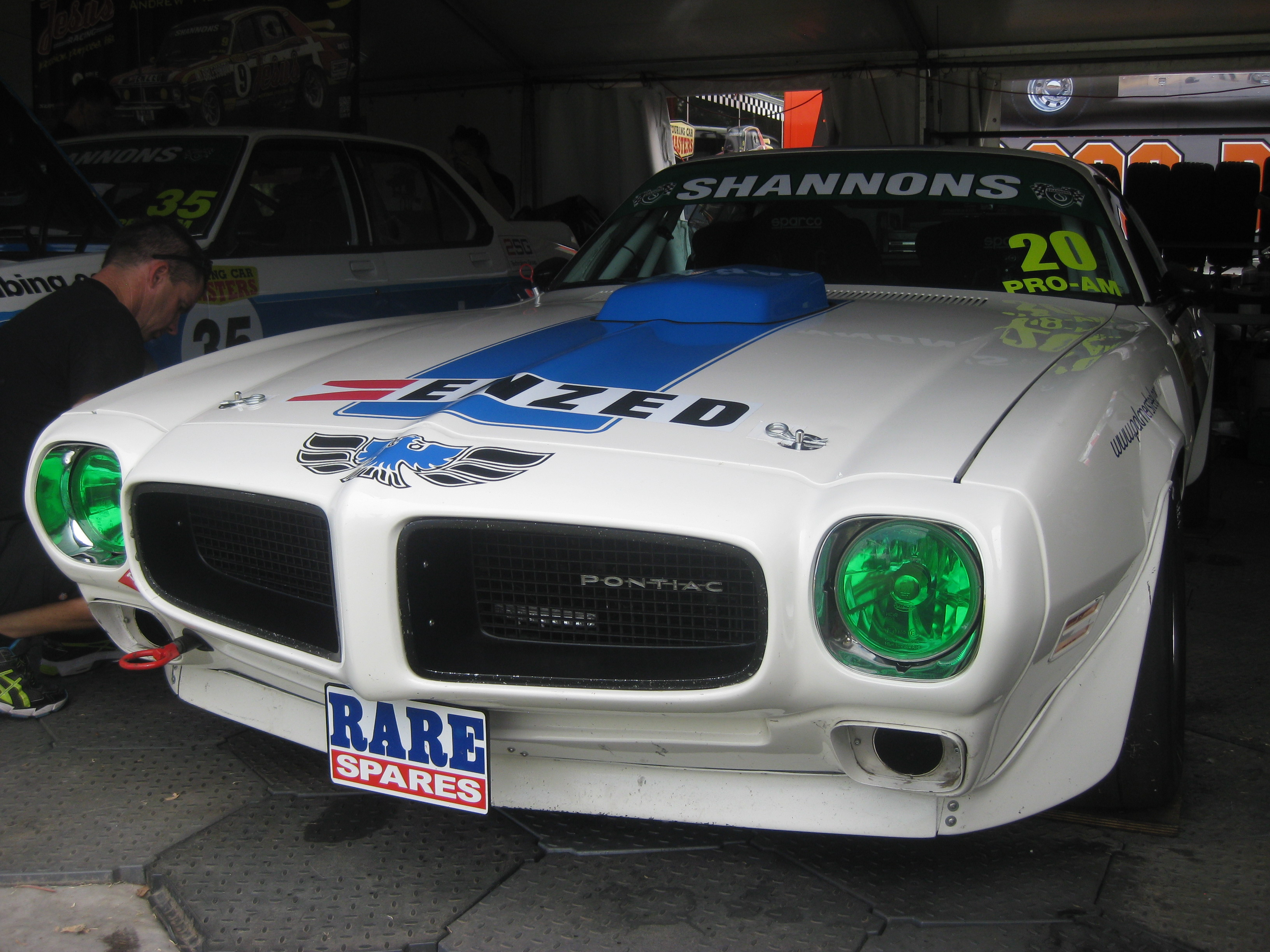 The Pontiac Firebird Trans Am of Ian Palmer at the Adelaide round of the 2015 Touring Car Masters